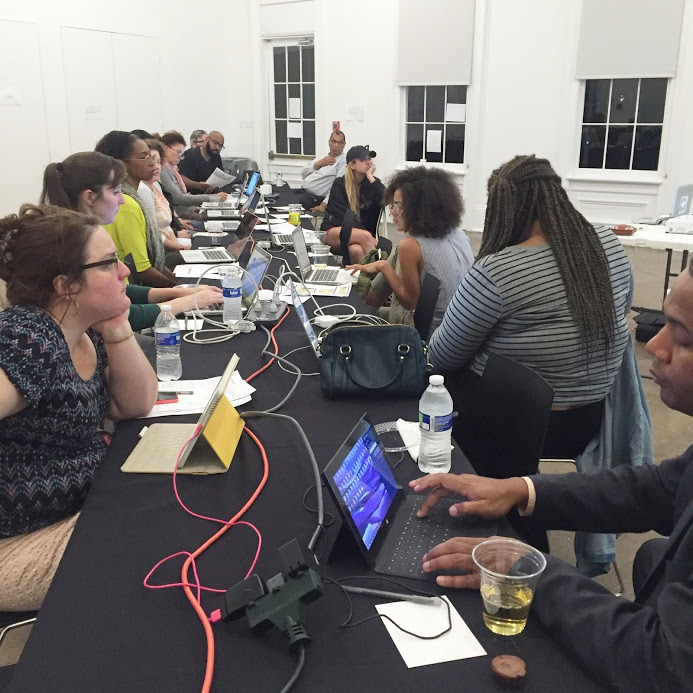 Black Lunch Table Wikipedia Editathon in New Orleans at the Joan Mitchell Center